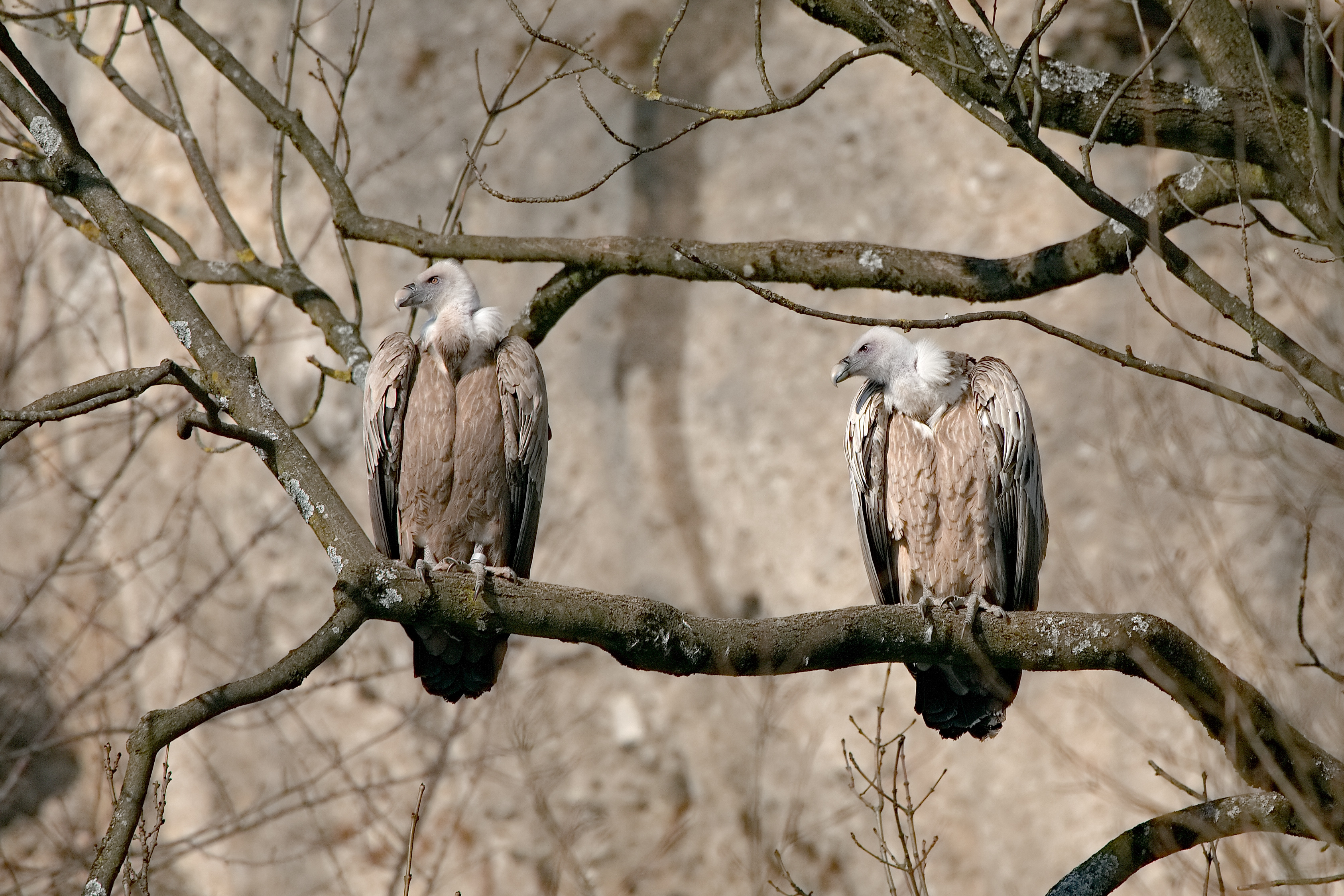 Gyps fulvus at zoo Salzburg 2010